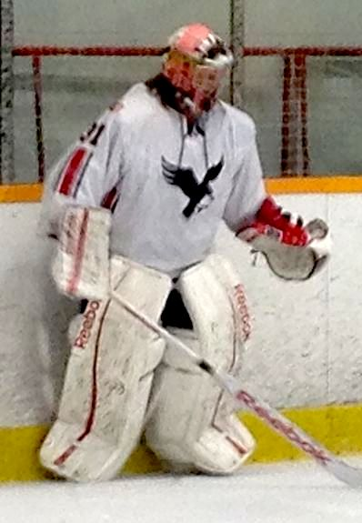 Photo taken by Devan Mighton of CIS men's hockey.